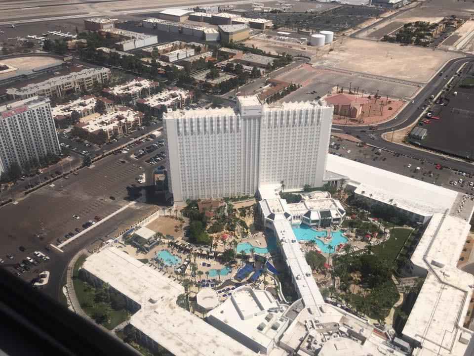 Las Vegas casino